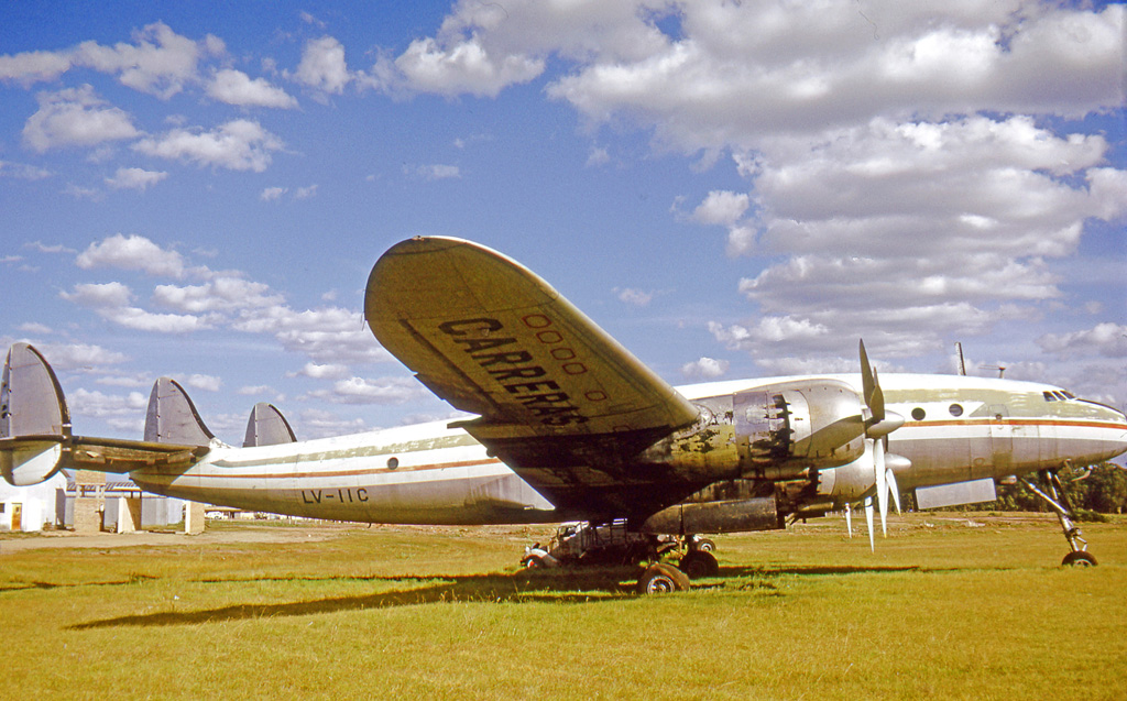 Lockheed L-749A LV-IIC of Aerolineas Carreras at Montevideo Airport